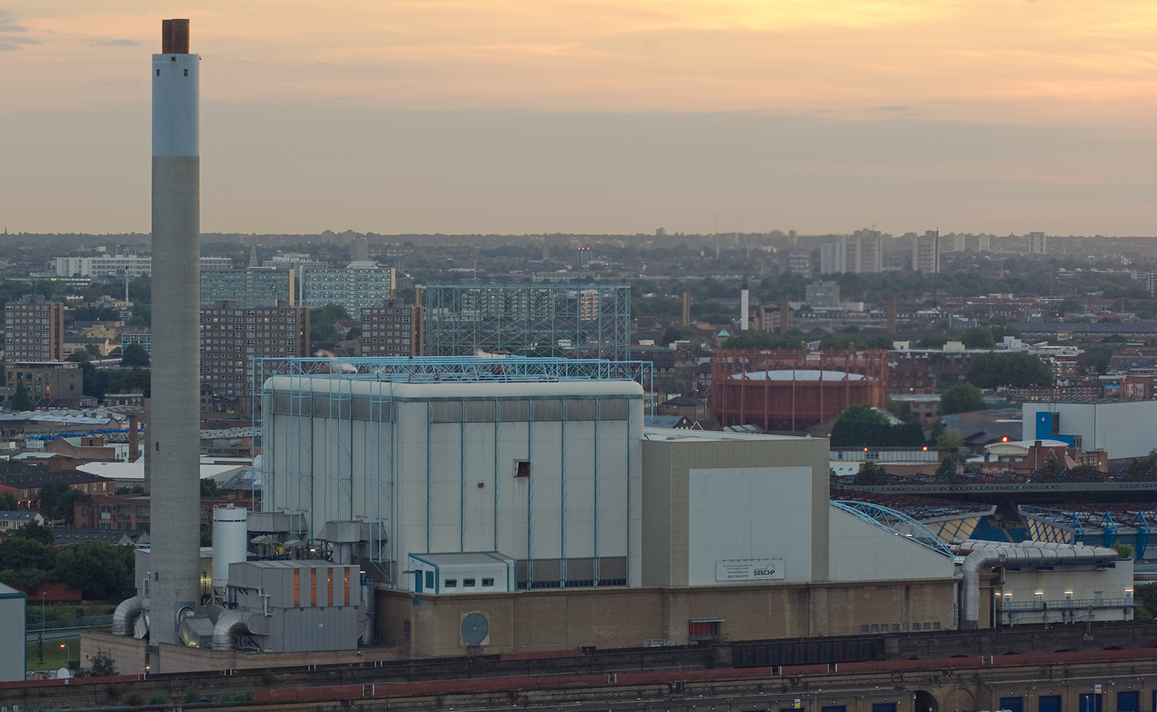 SELCHP incineration plant, Deptford, London, United Kingdom. Details: 3 sec. ISO: 100 Modifications: Crop, sharpening. Photographer: Bill Bertram